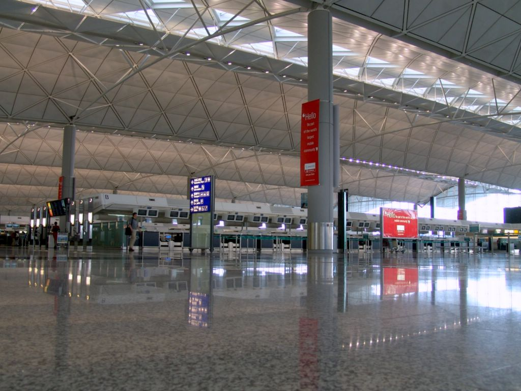 Hong Kong International Airport - Check-in area